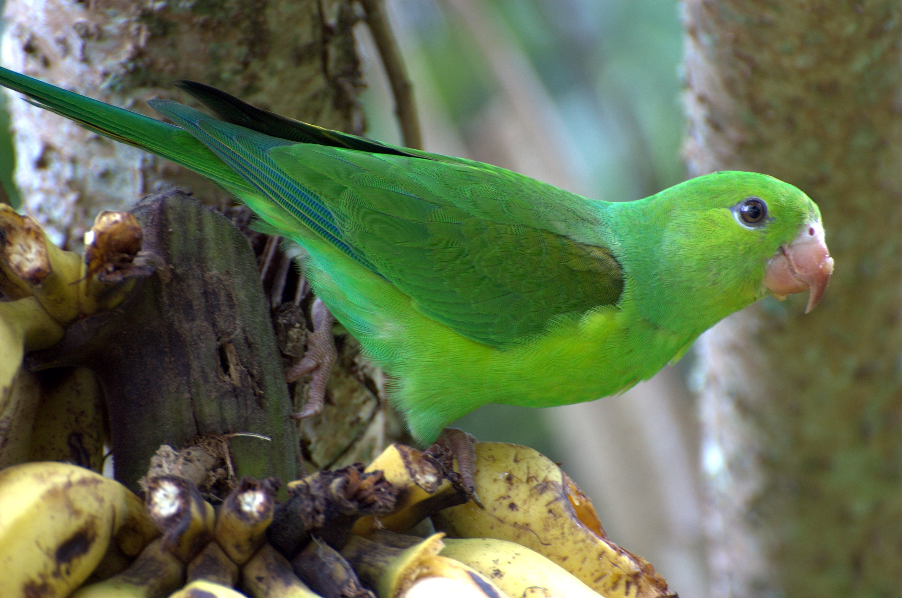 Plain Parakeet (Brotogeris tirica) eating banana.